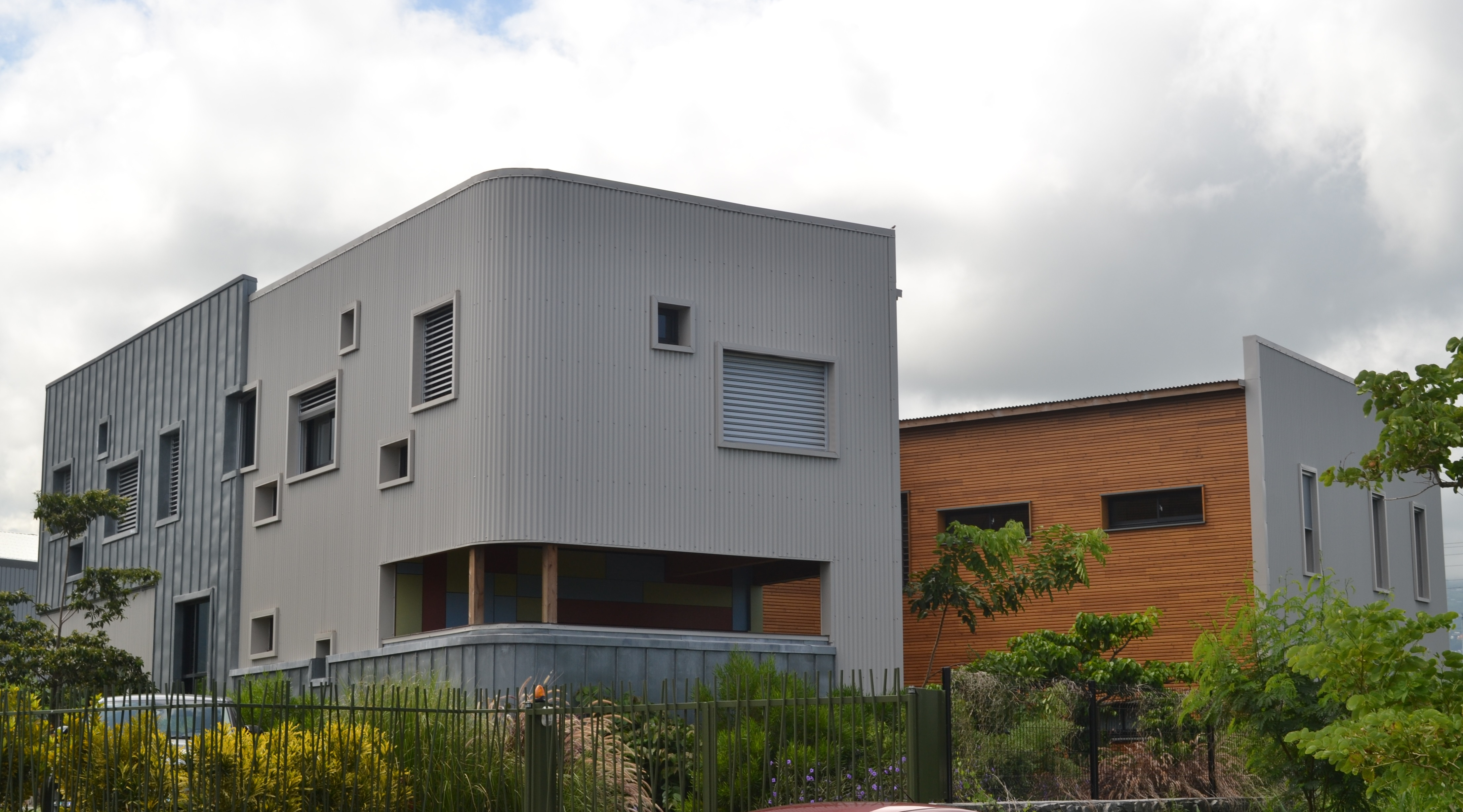 Picture of the INNOVAL building